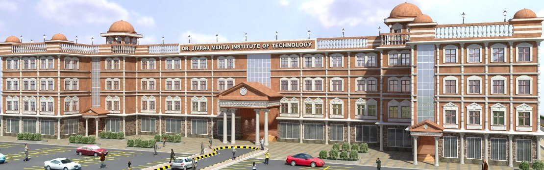 this is my college